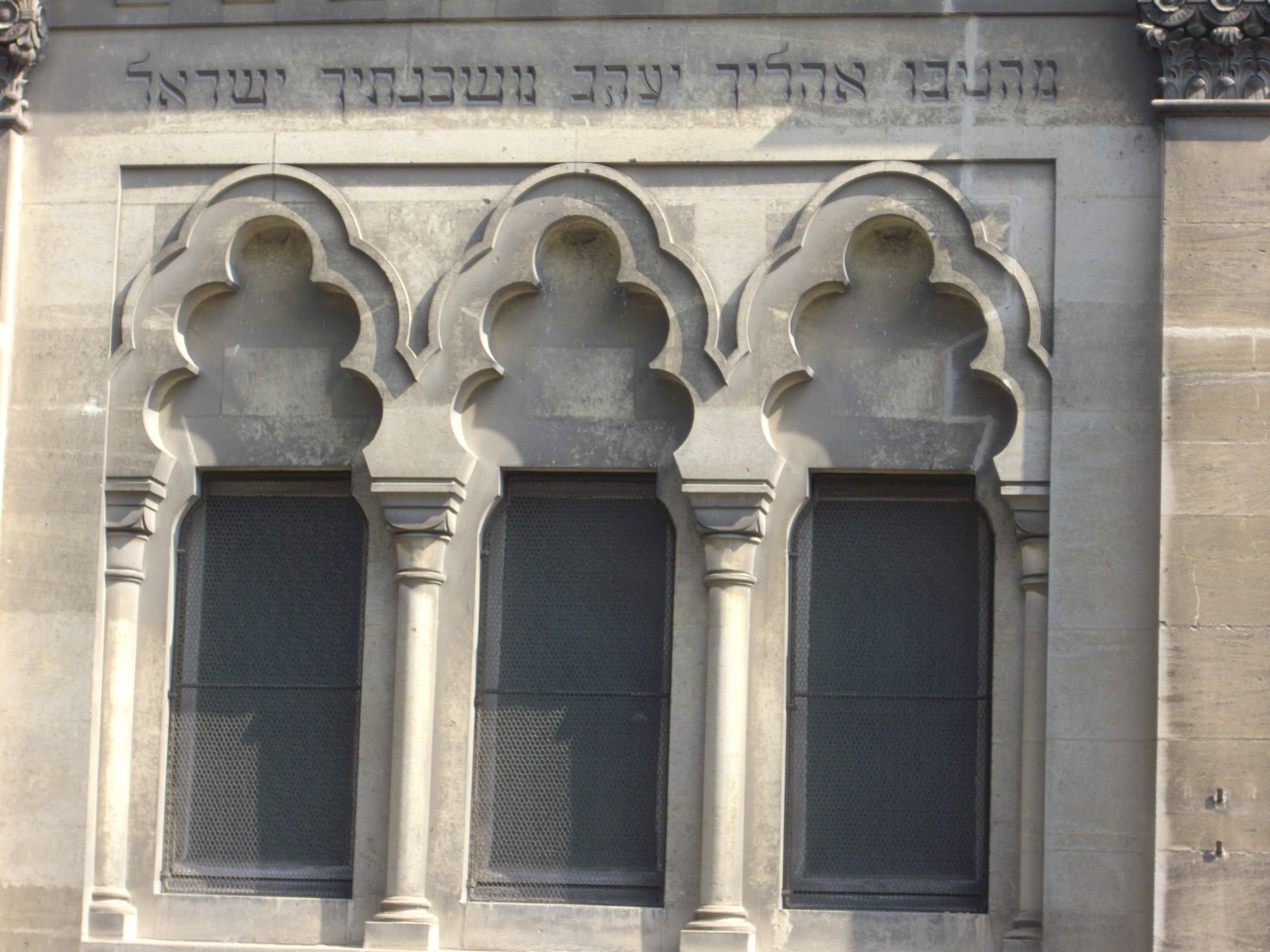 Synagogue of Épernay (Marne, France). Inscription hébraïque tirée du livre des Nombres 24:5 : Qu'elles sont belles tes tentes, ô Jacob, tes demeures, ô Israël!